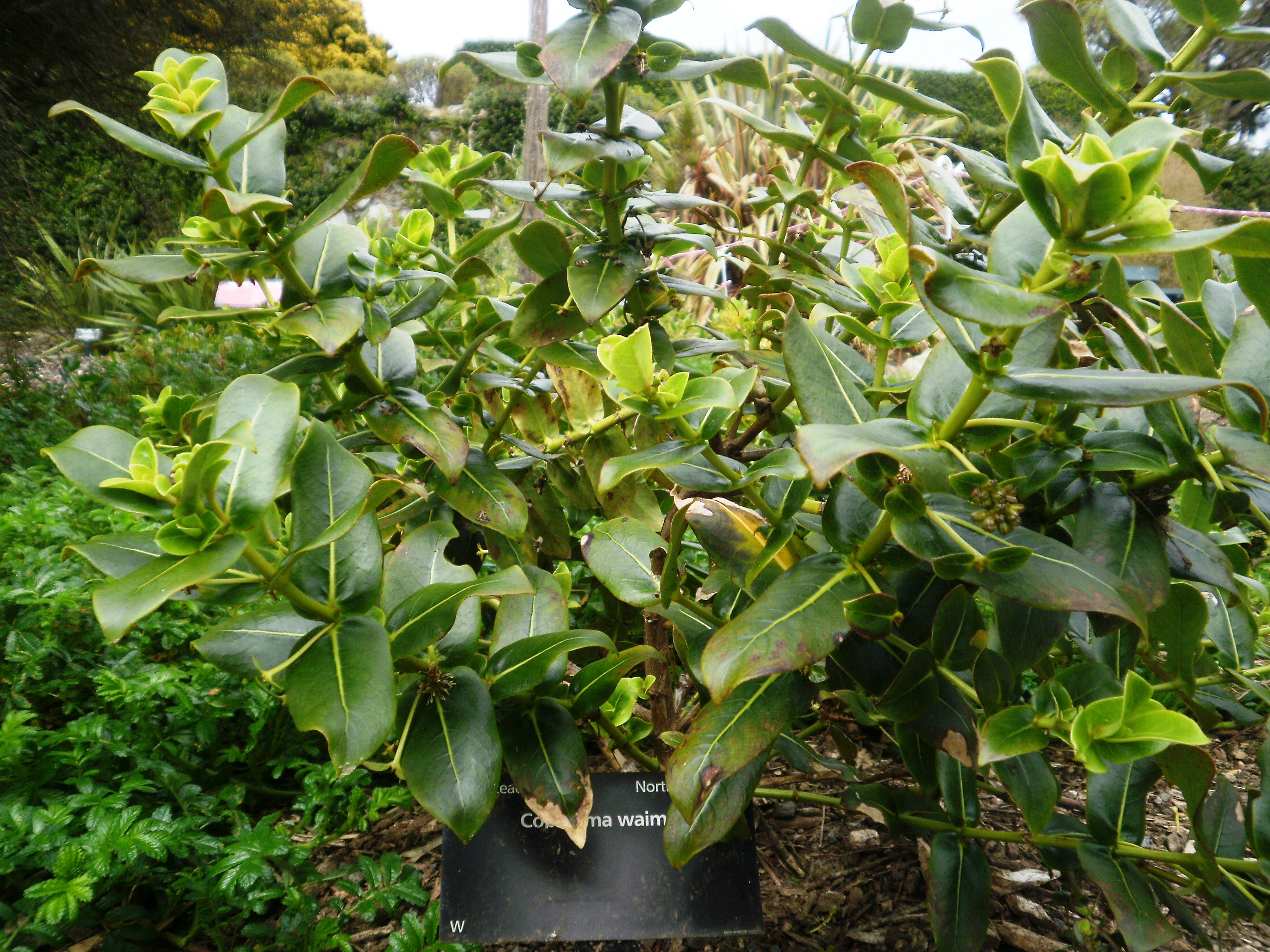 Coprosma waima, at Otari-Wilton's Bush, Wellington, New Zealand.